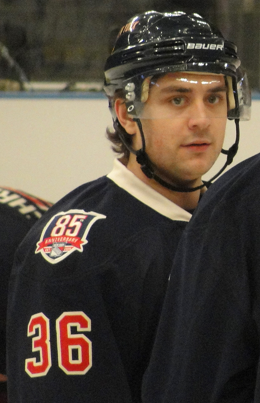 New York Rangers forward Mats Zuccarello during a February 13, 2011 game against the Pittsburgh Penguins at Madison Square Garden.